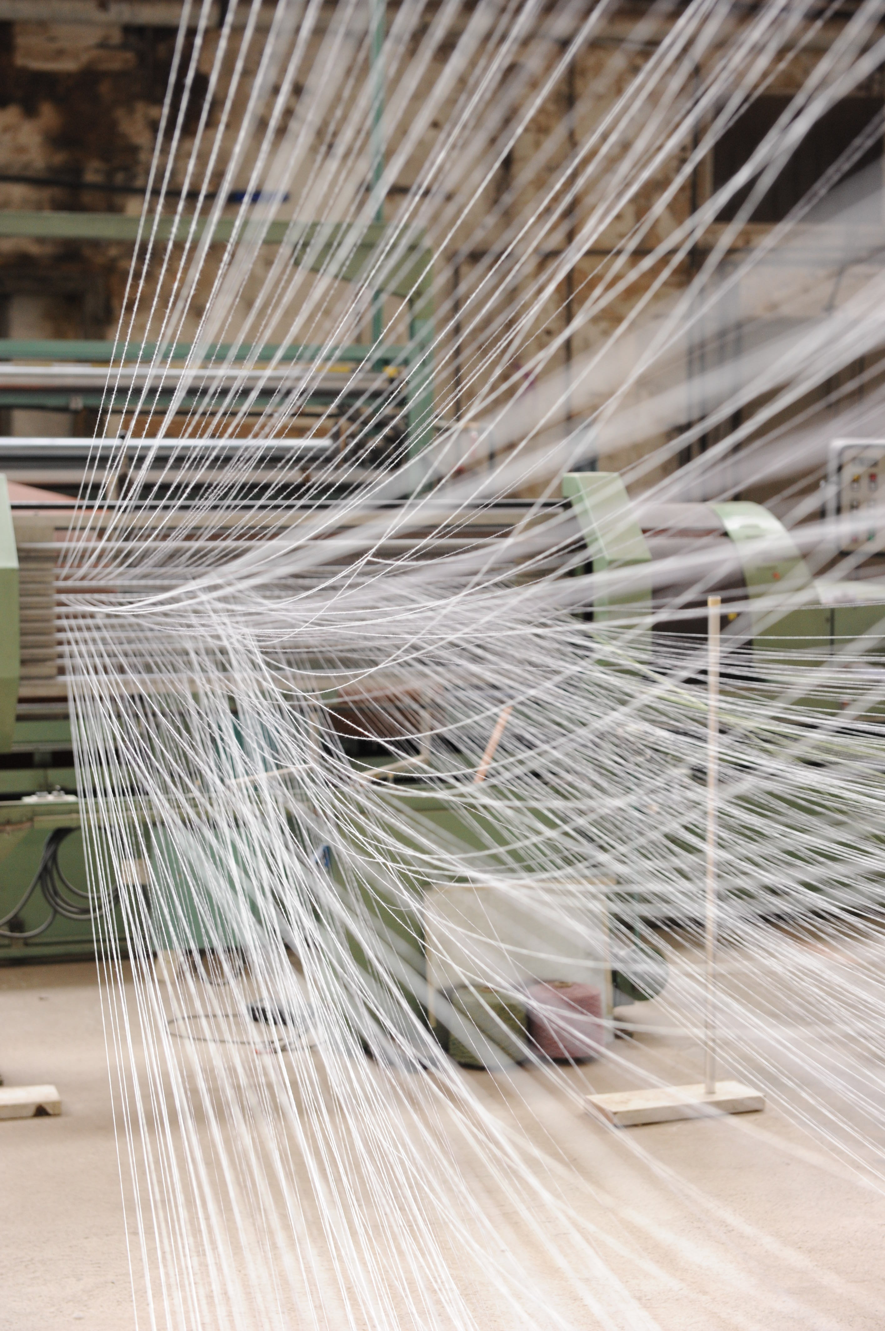 Ourdissage